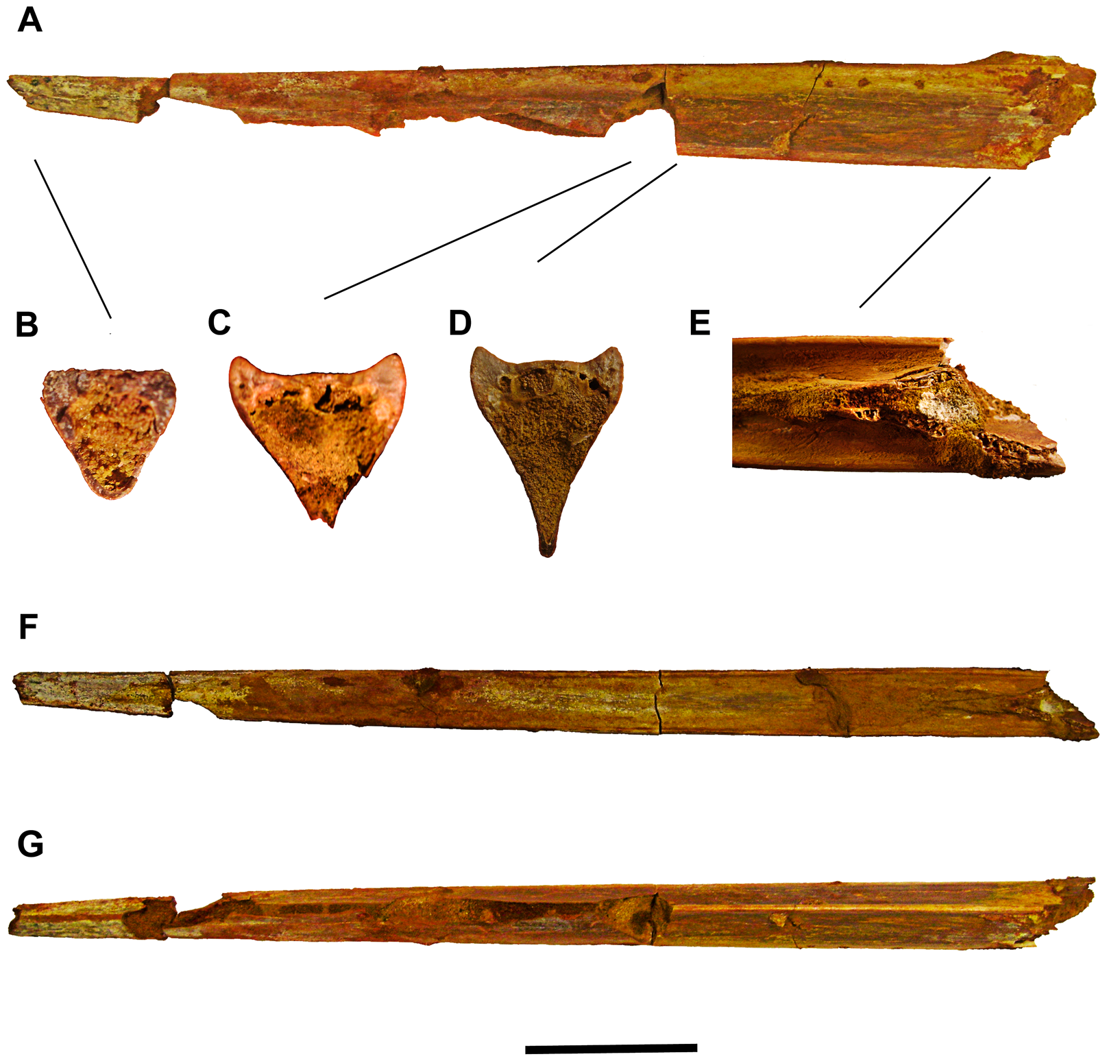 Holotype specimen (FSAC-KK 26) of Alanqa saharica. A) lateral view, F) dorsal view and G) ventral view. Cross sections B, C and D (not to scale) showing internal morphology of the three fragments. E) Details of the posterior end of the mandibular symphysis in dorsal view. Scale bar for A, F, G: 5 cm.